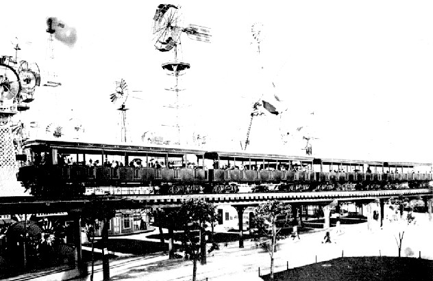 Intramural Railway at Columbian Exhibition 1893